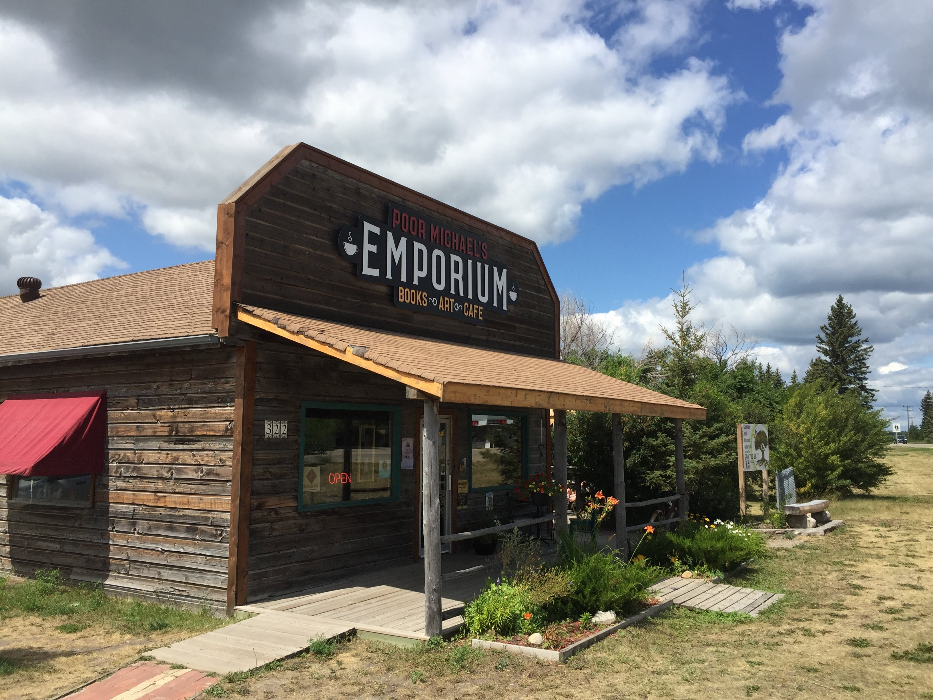 Poor Michael‘s Emporyum, Locally shop (book, art), caffe in Onanole, 3 kms south of Clear Lake & Riding Mountain National Park, Manitoba, Canada